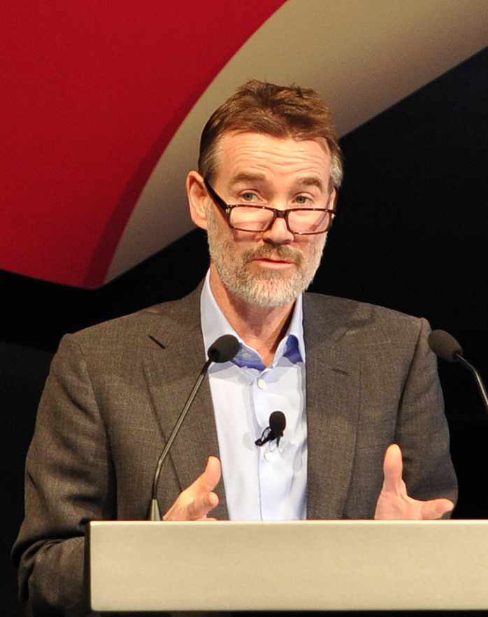 ITV Chief Executive Adam Crozier gives his keynote address at the Nations & Regions Media Conference, organised by the University of Salford, at The Lowry 13 March 2012.